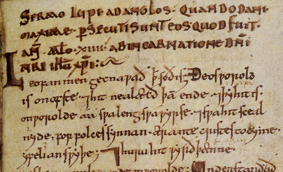 Photograph of a page in the medieval manuscript Cotton Nero A.i held in the British Library.